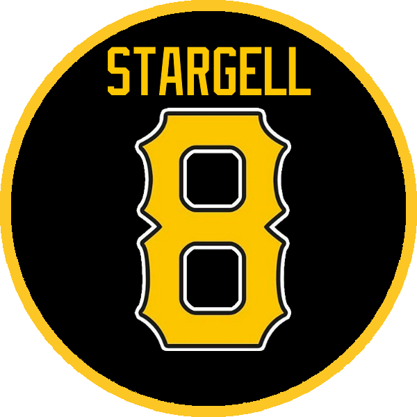 Illustration of Pittsburgh Pirates retired number